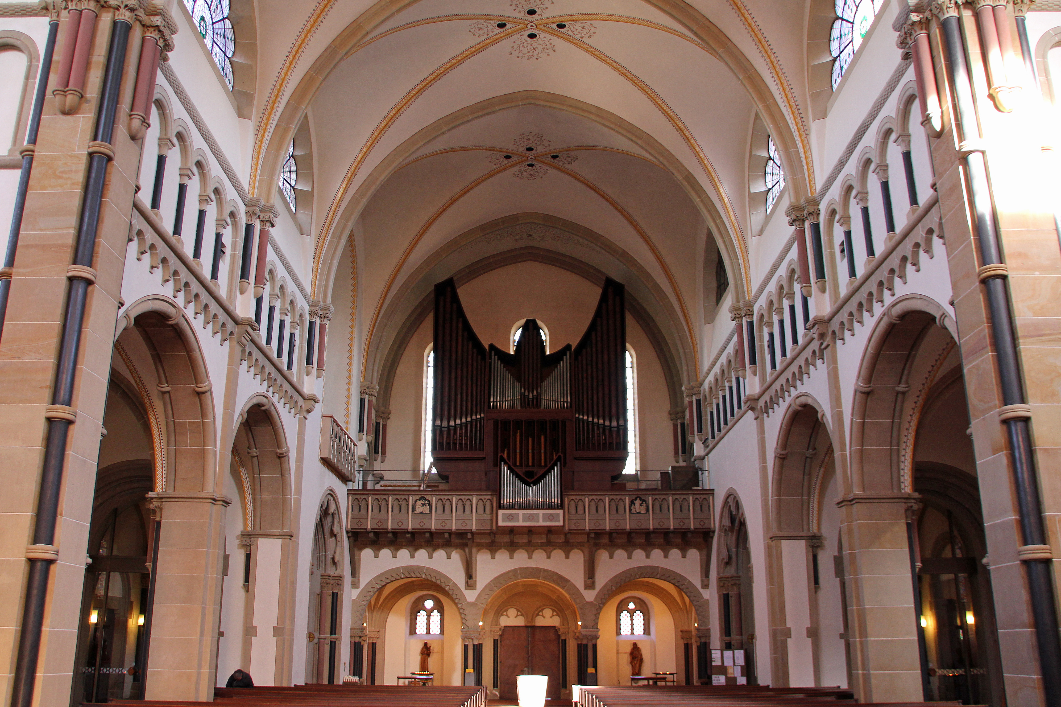 Herz-Jesu-Kirche in Koblenz